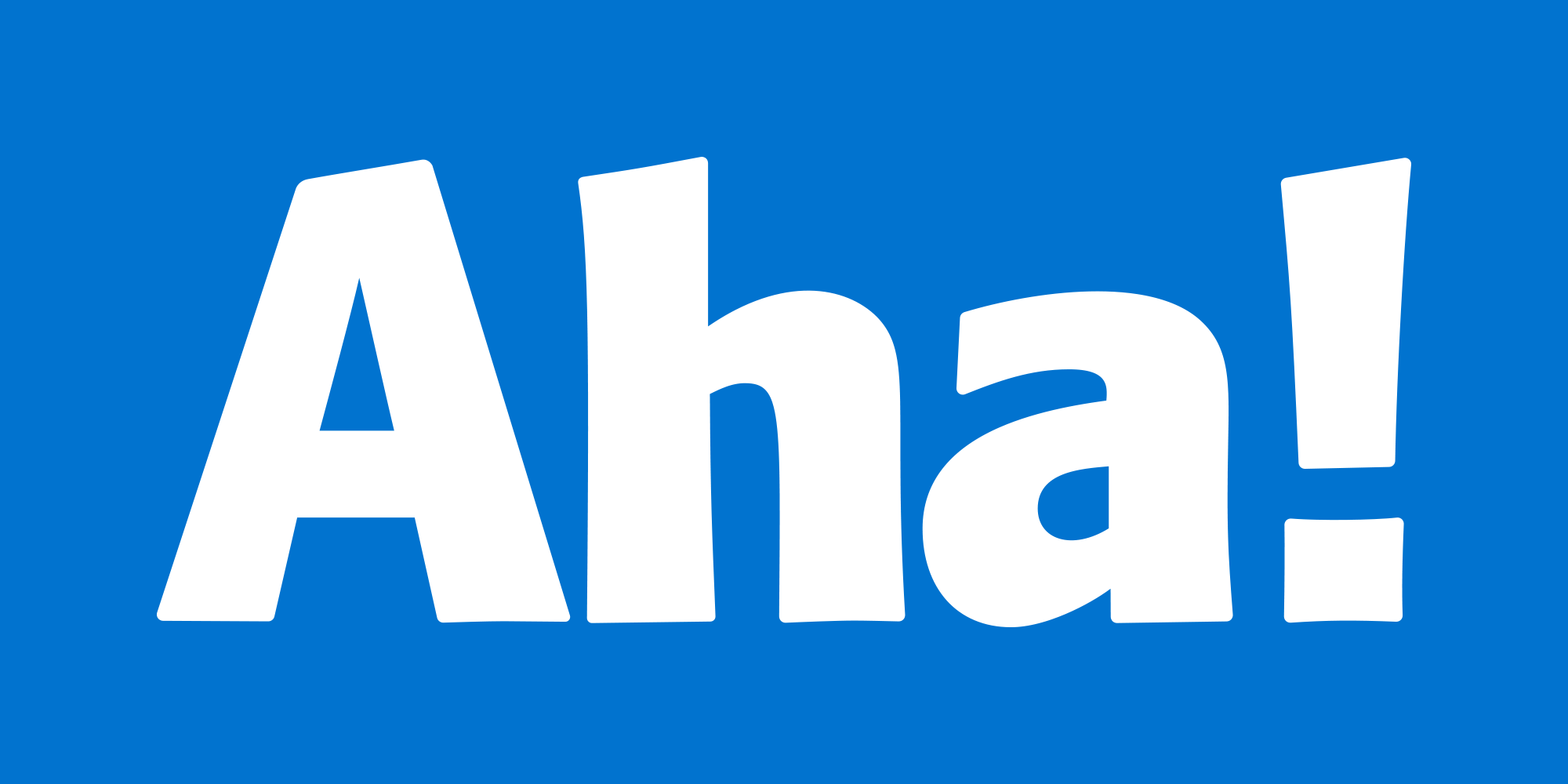 Aha! logo